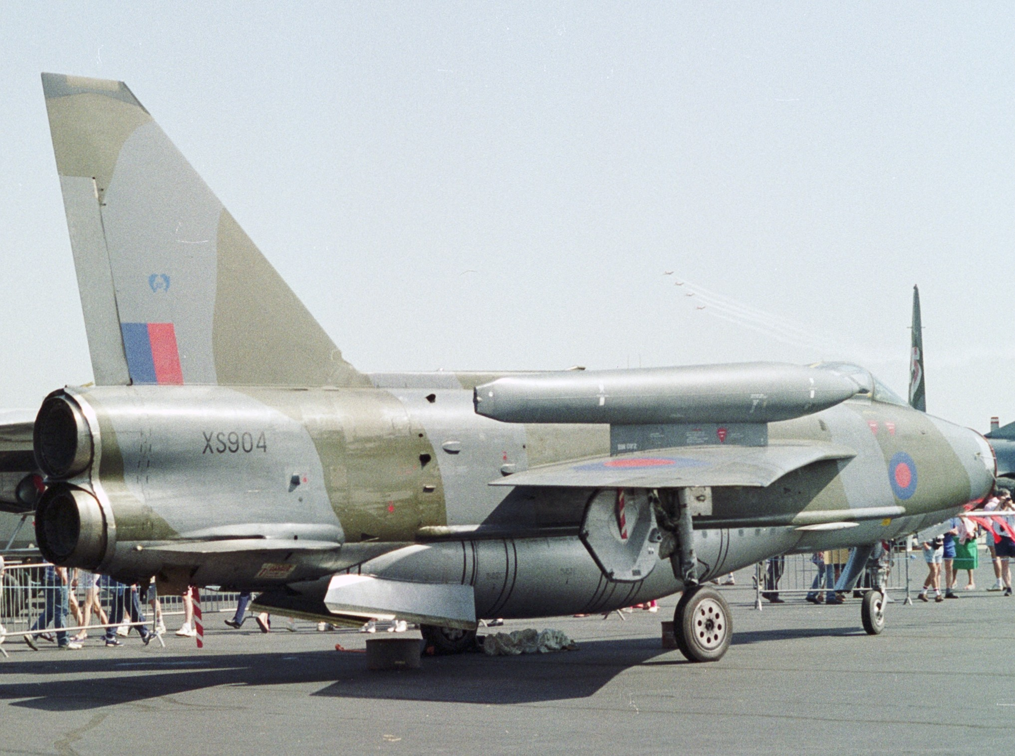 Air Tattoo International, RAF Boscombe Down - UK, June 13 1992.